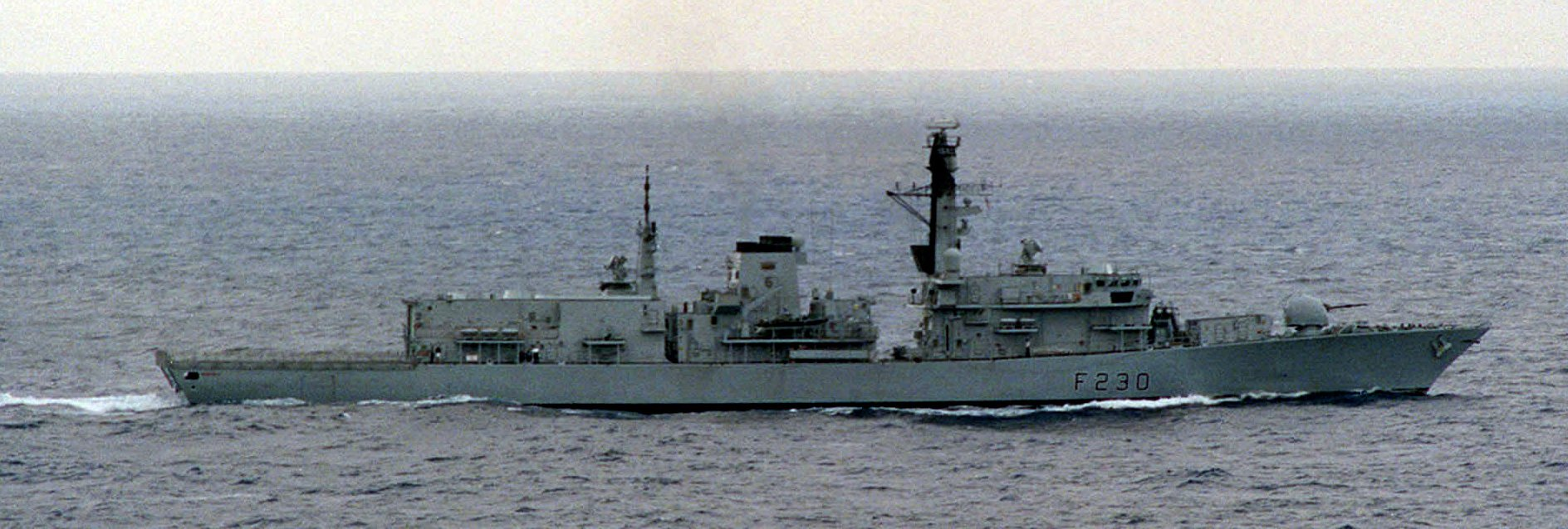 ID: DNSD0305134 Starboard Side view of the British ship HMS Norfolk underway during Exercise KERNEL BLITZ '97 off the Southern California coast. KERNEL BLITZ is a biannual Commander-in-Chief Pacific (CINCPAC) fleet training exercise (FLEETEX) focused on operational/tactical training of Commander, Third Fleet (C3F)/ I Marine Expeditionary Forces (MEF) and Commander, Amphibious Group 3 (CPG-3)/ 1st Marine Division (MARDIV). KERNEL BLITZ is designed to enhance the training of Sailors and Marines in the complexities of brigade-size amphibious assault operations.